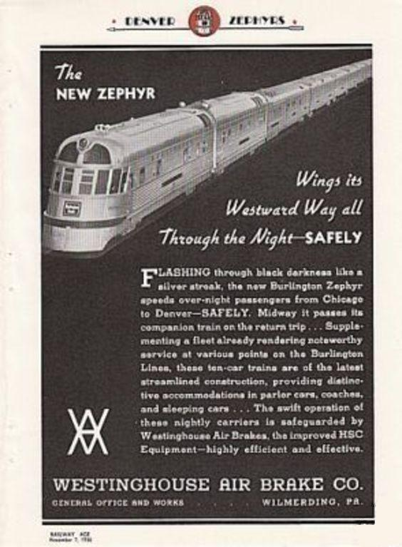 Ad for Westinghouse Air Brake Company featuring the new Denver Zephyr passenger train, which was equipped with the brakes. The ad appeared in the 7 November 1936 issue of Railway Age.